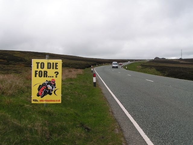 Motorcyclist warning, A537. The A537 Cat and Fiddle Road is popular with motorcyclists, but is one of the most dangerous roads in England (a map at the Cat and Fiddle Inn shows the locations of 25 serious and 3 fatal motorcycle accidents along the road in the past 4 years). According to their website - - the aim of the Shiny Side Up Partnership is to reduce the number of motorcyclists killed and seriously injured on East Midlands roads and, in partnership with the Highways Agency, on the Trunk Road Network in England. The Inn itself, and the adjoining mast, is visible in the background of this image.